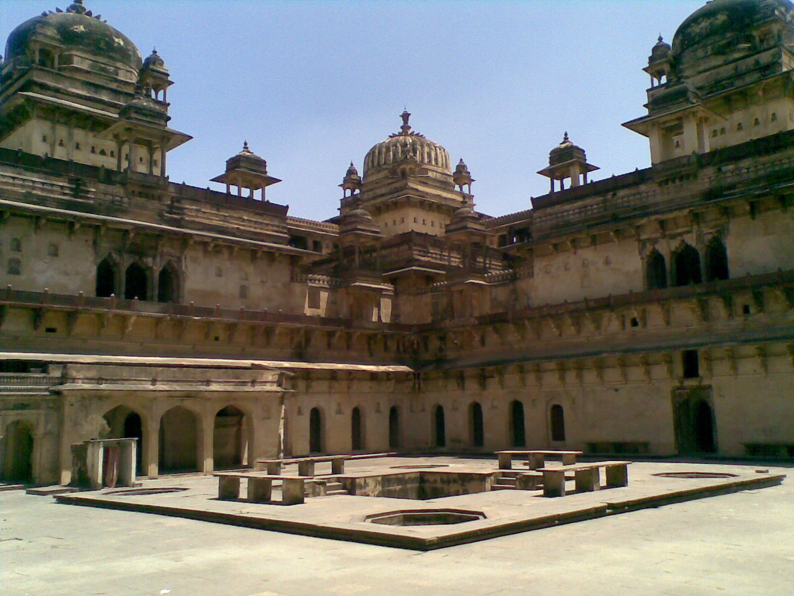 This monument is near Chhatarpur, Oorcha, Madhya Pradesh